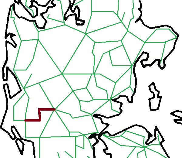 Map of railways in Middle Jutland in Denmark with the private railway Varde-Grindsted Jernbane in brown.